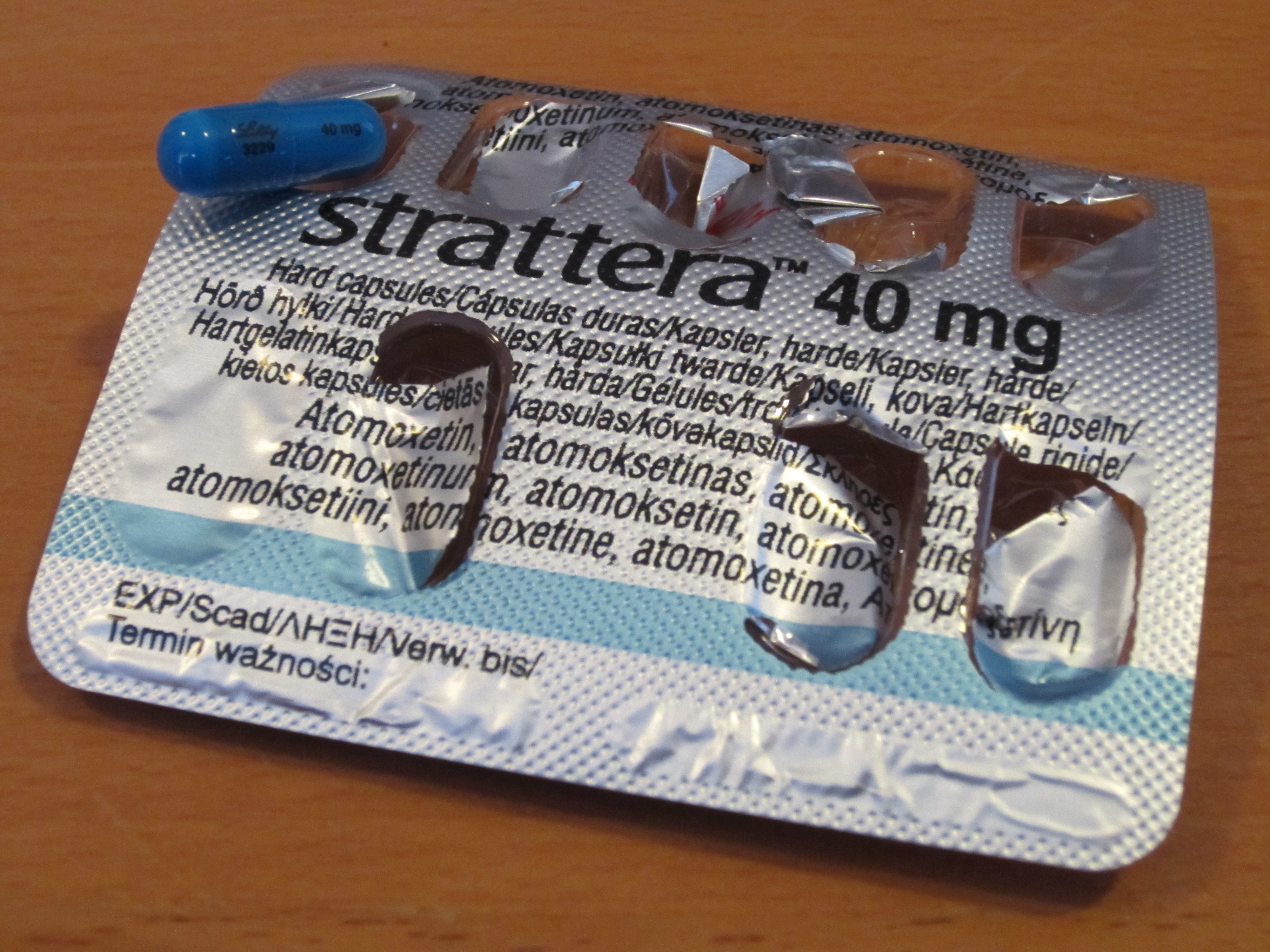 Medicine "Strattera" (eg. used to treat ADD/ADHD)